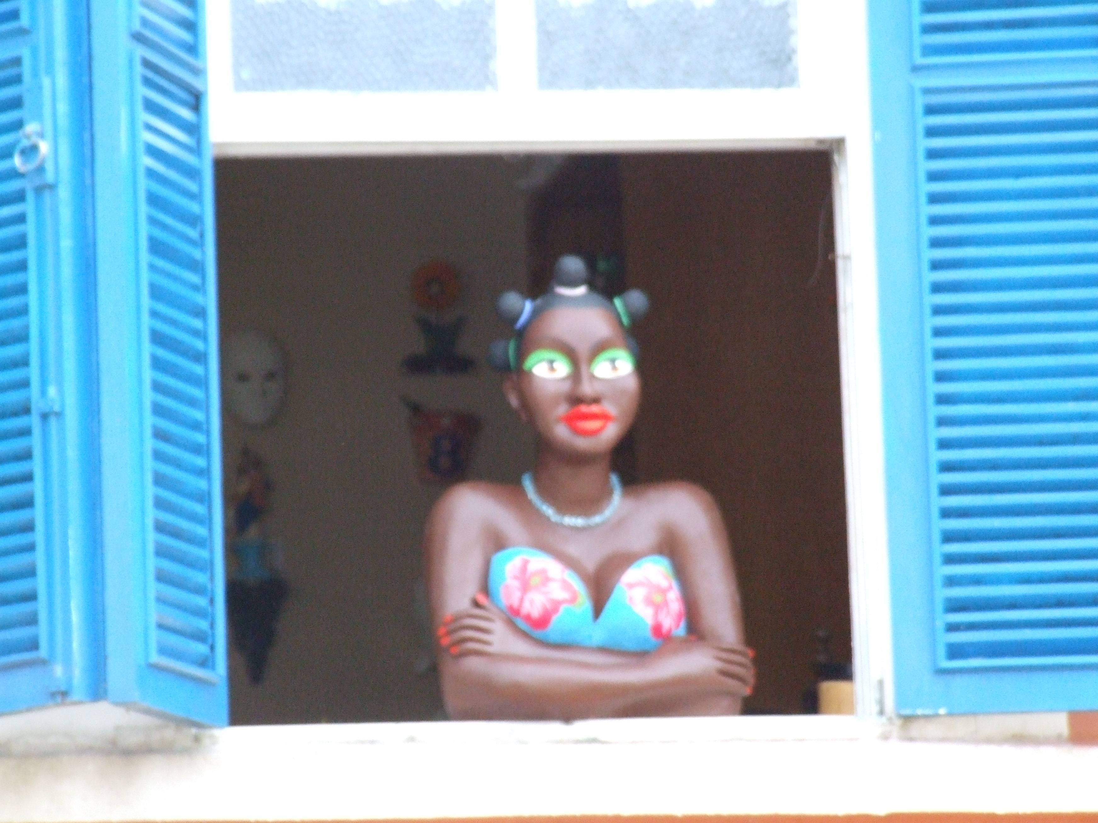 Dummy carnival at Antonina.